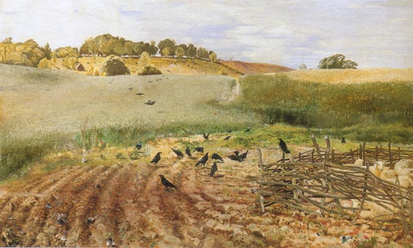 Landscape view painting, of fields and a groups of Rooks.